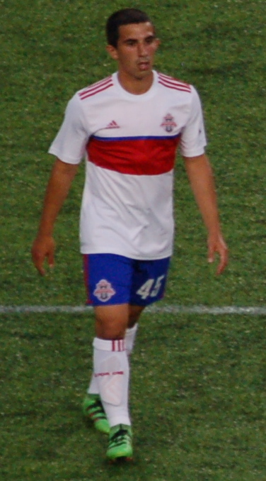 Luca Uccello (TFC), Ross Tomaselli (FCC), Kenney Walker (FCC) Taken during a match between FC Cincinnati and Toronto FC II at Nippert Stadium in Cincinnati on June 18, 2016.